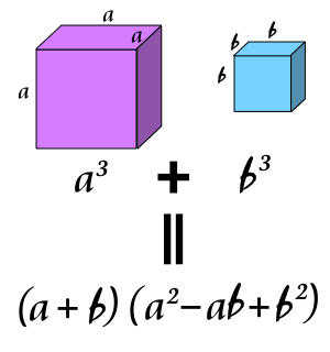 Sum of 2 cubes